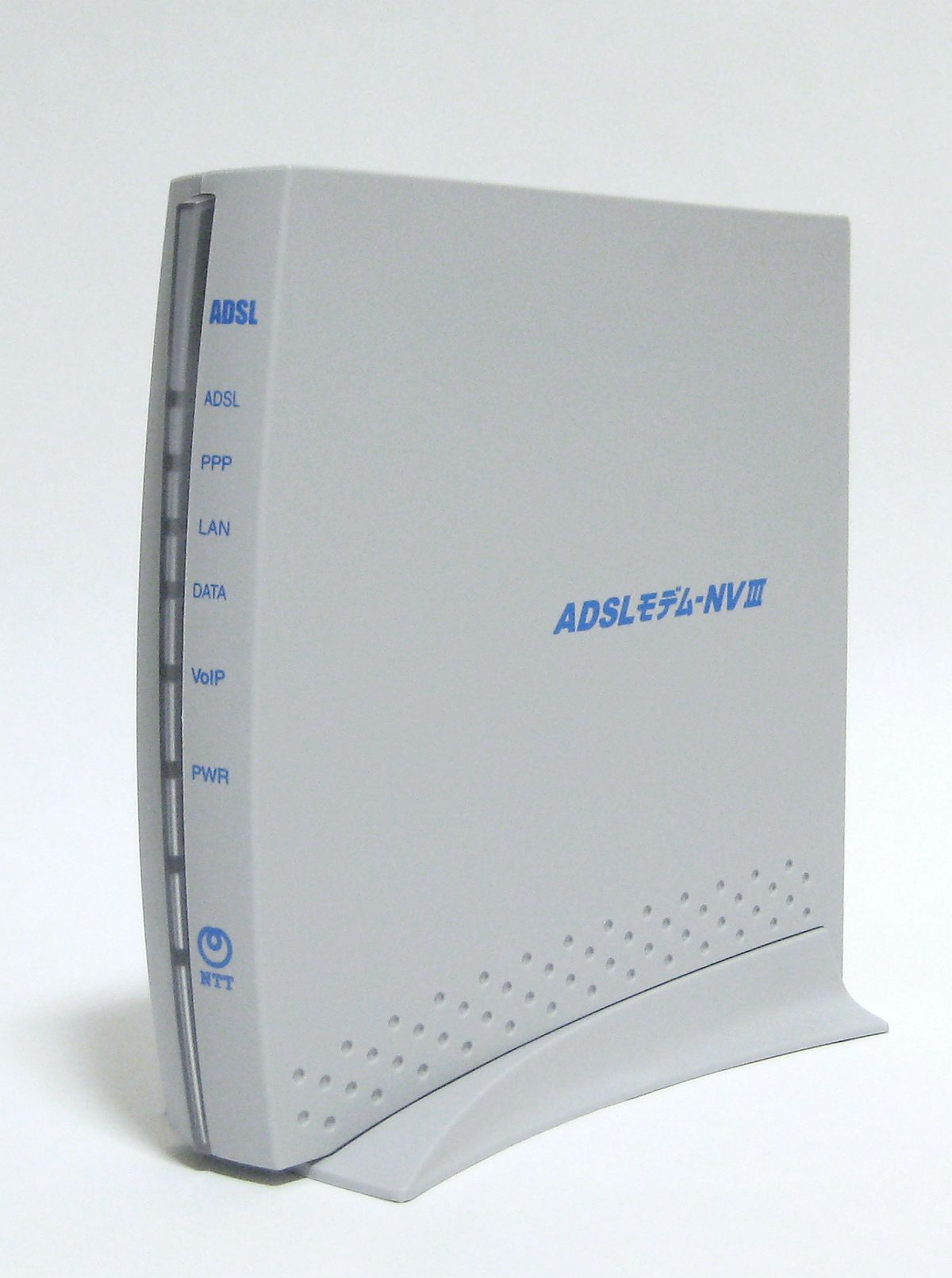 NTT East ADSL modem-NVIII.